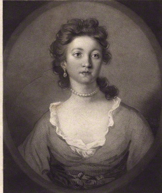 by Samuel William Reynolds, after Sir Joshua Reynolds, mezzotint, published 1822